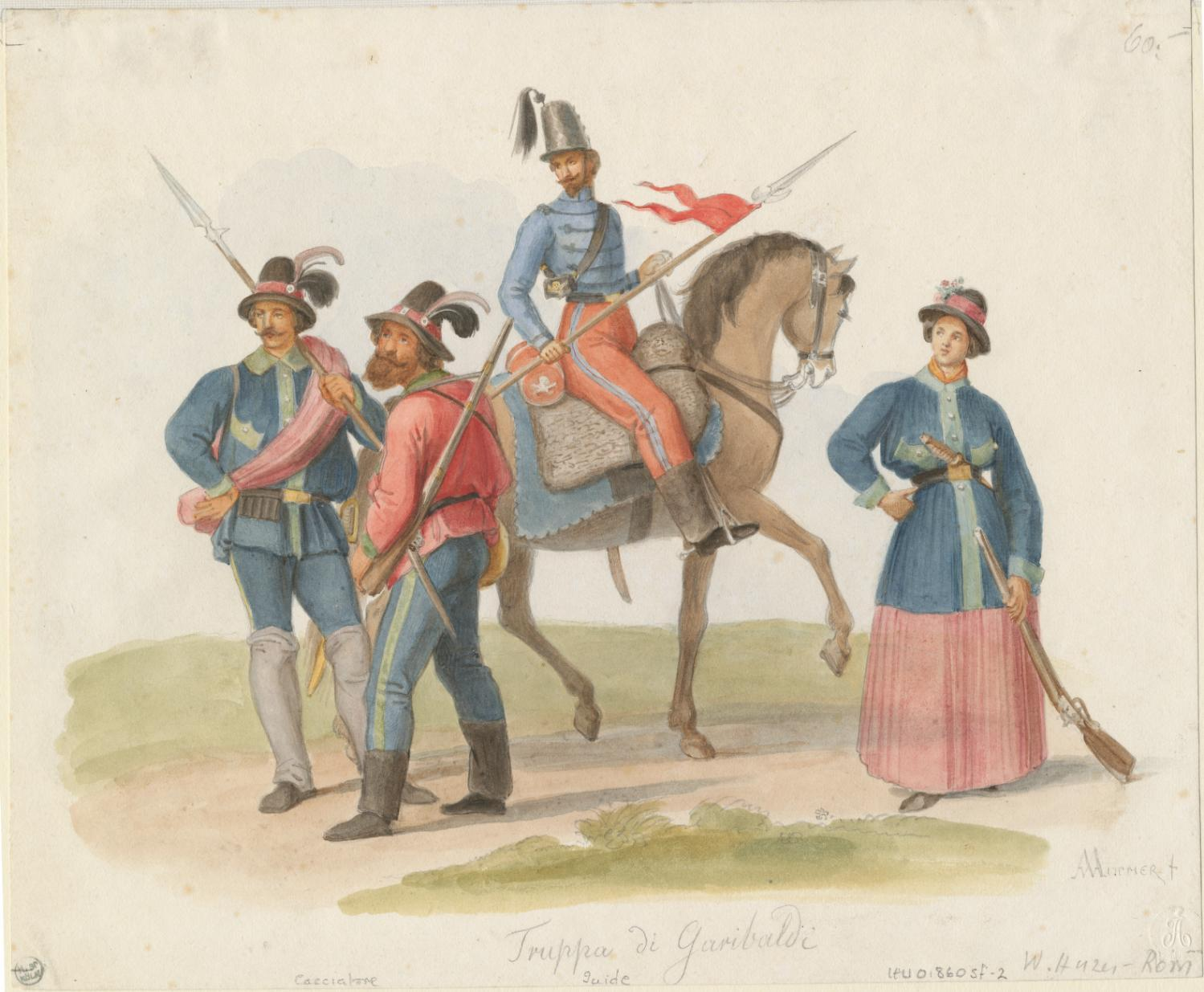 Publication/Creation: 1860 Creators and Contributors: Murmer (artist) Description: Physical Description: 1 watercolor; 21.8 x 26.5 cm. reformatted digital Abstract: Original watercolor signed by Murmer; mounted lancer in uniform, 2 soldiers in military costume at left, female soldier or vivandière at right.